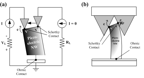 Working priciple of nanogenerator where the force is exerted in perpendicular to the growing direction of nanowire.